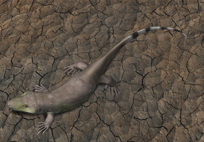 Tseajaia campi, a diadectomorph from the Early Permian of Utah. Digital.